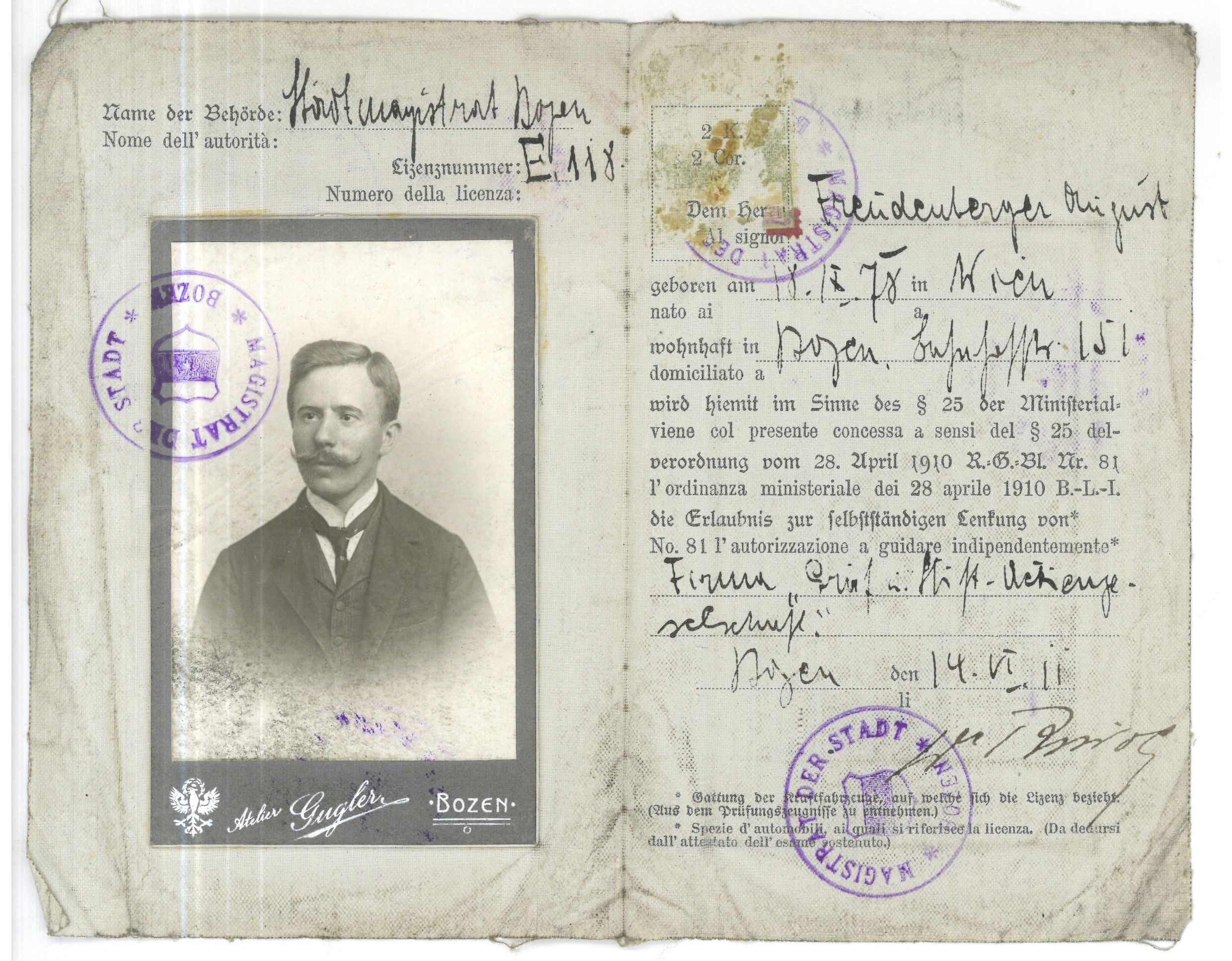 Drivers license of August Freudenberger, released in Bozen/Bolzano (South Tyrol) in 1911 (Civic Archives of Bozen)